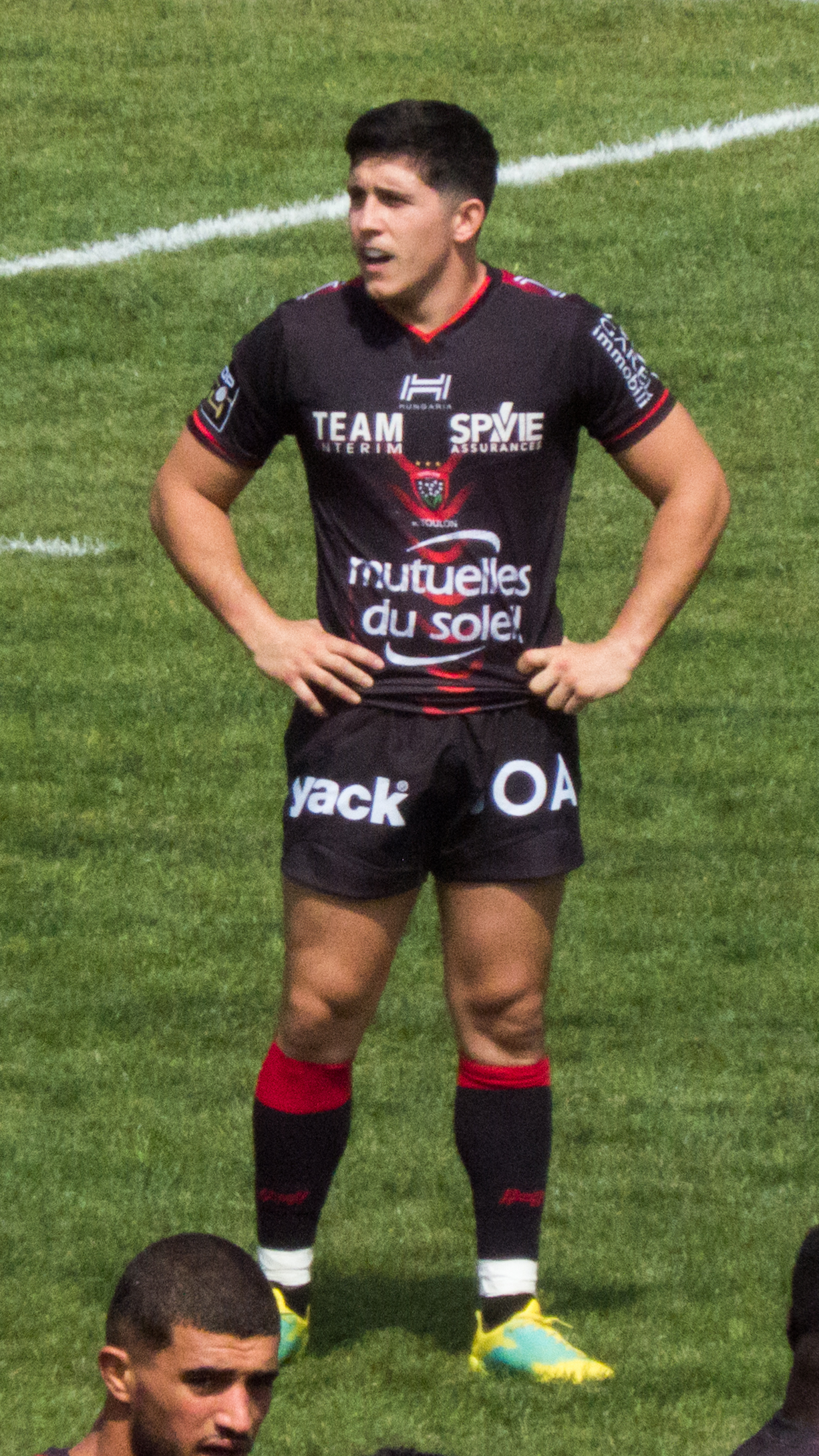 2018–19 Top 14 season — 1 September 2018, Stade du Hameau. Match between: Section Paloise — RC Toulonnais